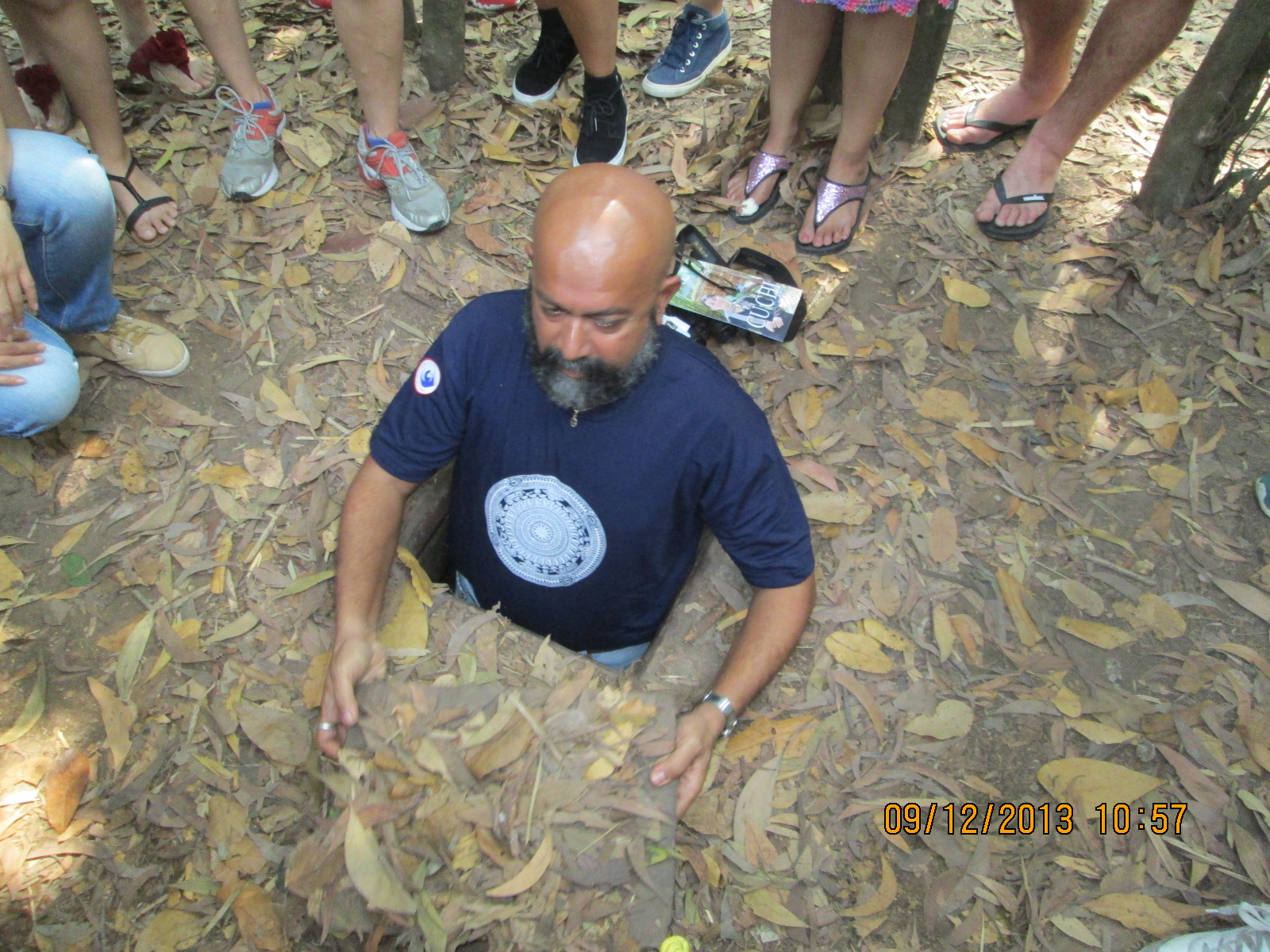 Seafarer/Blogger/Tourist Rudolph.A.Furtado entering a Cu Chi Tunnel trap door.